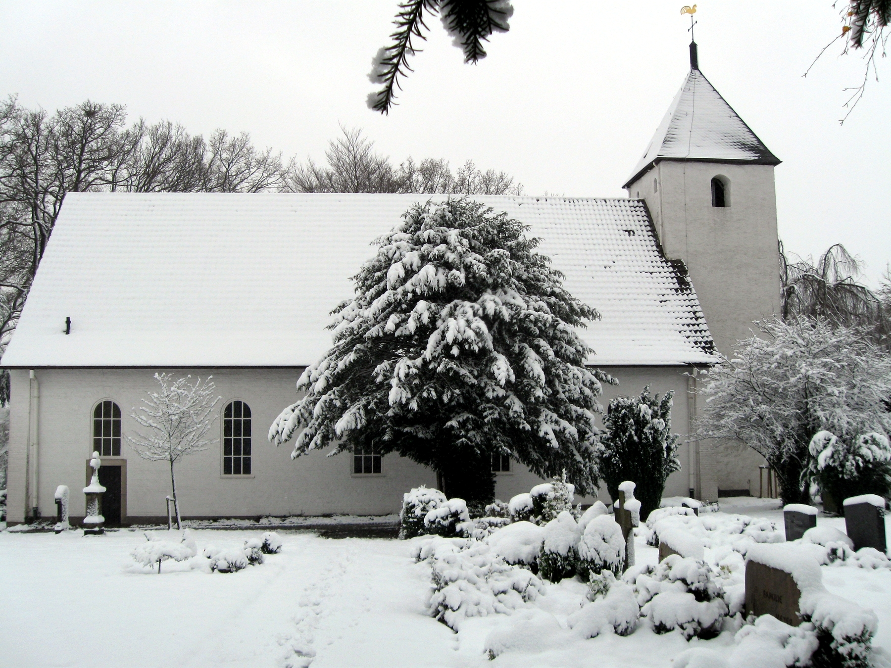 Highway Church of Exter in November 2008